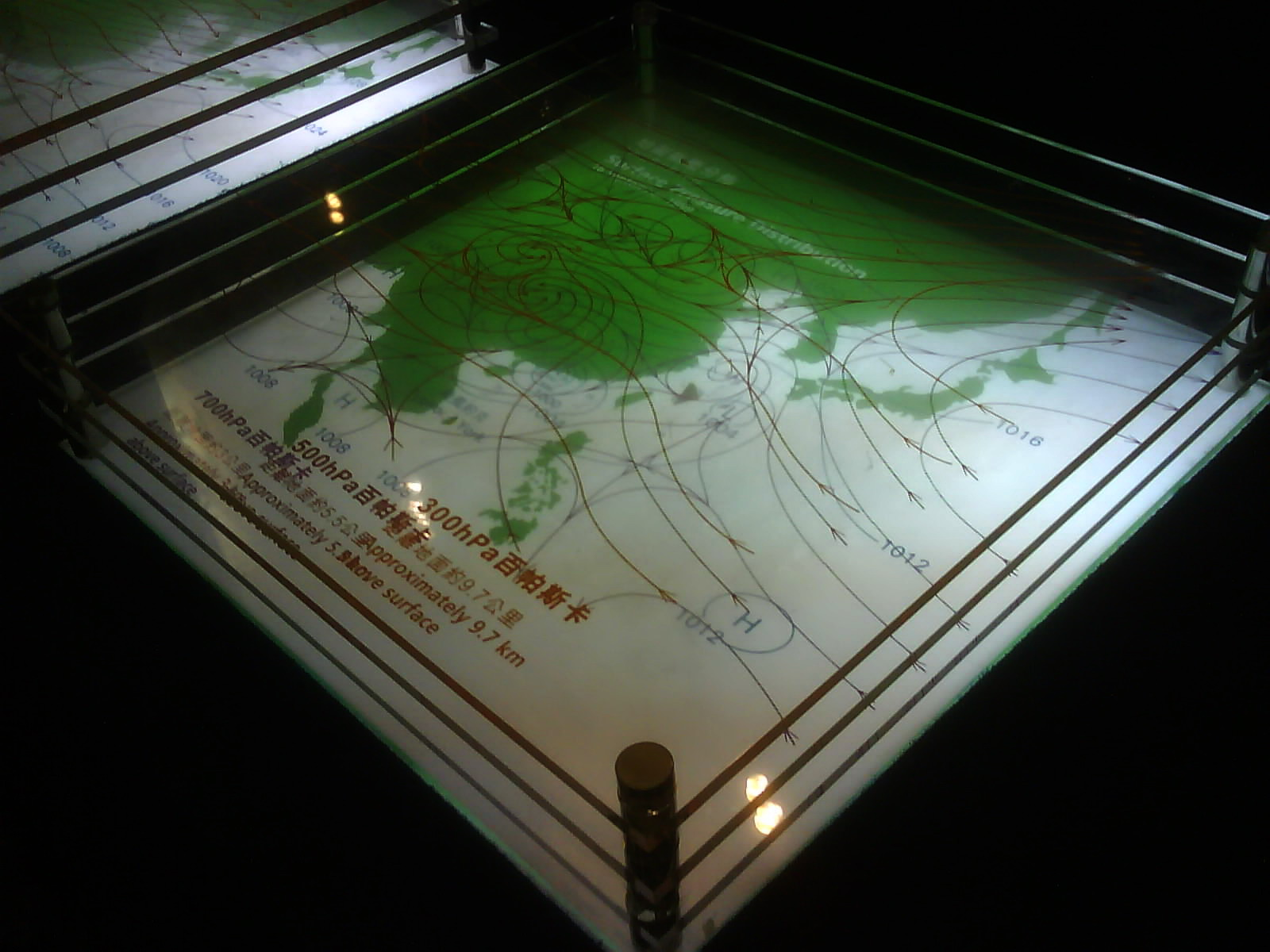 Open Day 2007 of The Hong Kong Observatory Headquarters. Exhibition.